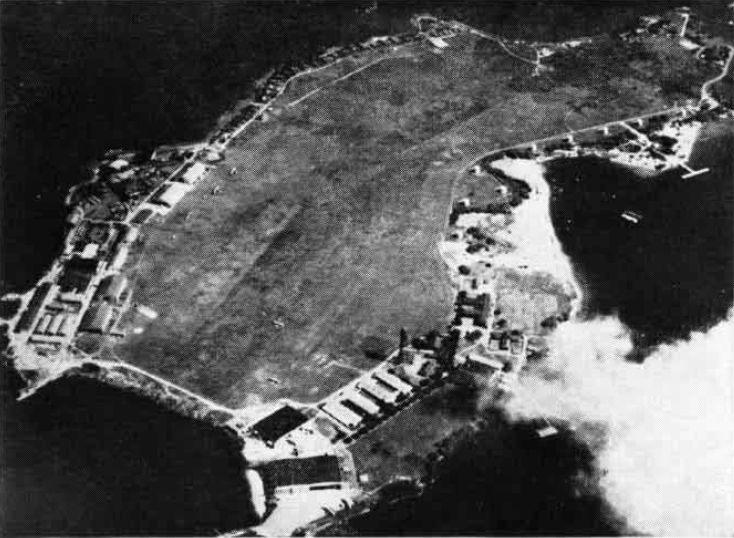 Aerial view of Ford Island, Pearl Harbor, Hawaii (USA), in 1930. The U.S. Army Luke Field is on the left, the Naval Air Station on the lower right.